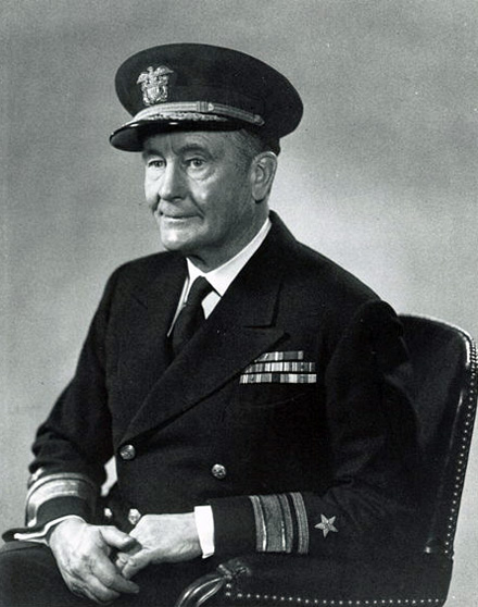 "Released" photo of Samuel Eliot Morison (1887-1976) File Website: Their caption to the photo is as follows... 030821-N-0000X-001 Naval Historical Center, Washington, D.C. (Jan. 21, 1953) – Navy file photo of Rear Adm. Samuel Eliot Morison, USNR, the eminent naval and maritime historian and Pulitzer prize winning author. The director of naval history has established the Samuel Eliot Morison Naval History Scholarship Program to promote the development of a broad understanding of naval history within the American national experience. This scholarship provides a $5,000 cash award to a selected active duty commissioned officer of the U.S. Navy or U.S. Merchant Marine Corps with demonstrated leadership potential, high academic qualifications and whom is already pursuing graduate study in history, international relations, or a related field. The award will help pay for expenses related to research, travel and the purchase of books or other educational materials. (RELEASED)